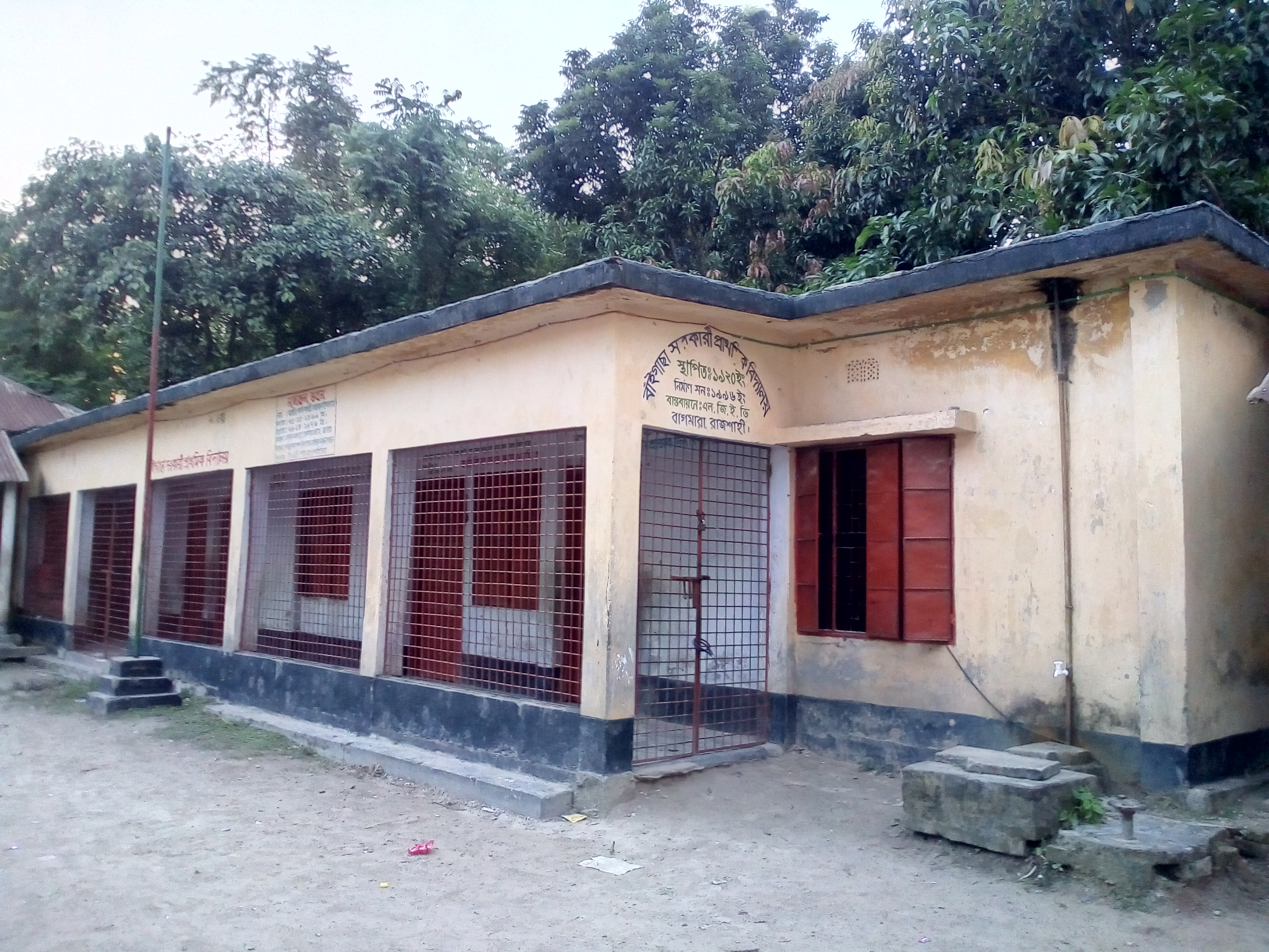 Baigacha Government Primary School